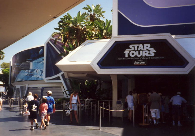 Star Tours entrance 1996 Disneyland Taken by Ellen Levy Finch (User:Elf)